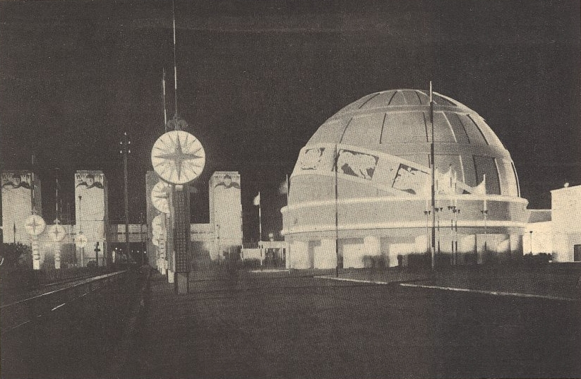 Photograph of the Exposição do Mundo Português (Portuguese World Exhibition), that took place in 1940, in the city of Lisbon, in Portugal. This image was published in the Gazeta dos Caminhos de Ferro magazine No. 1268, of 16th October 1940, and scanned by the Hemeroteca Municipal de Lisboa.